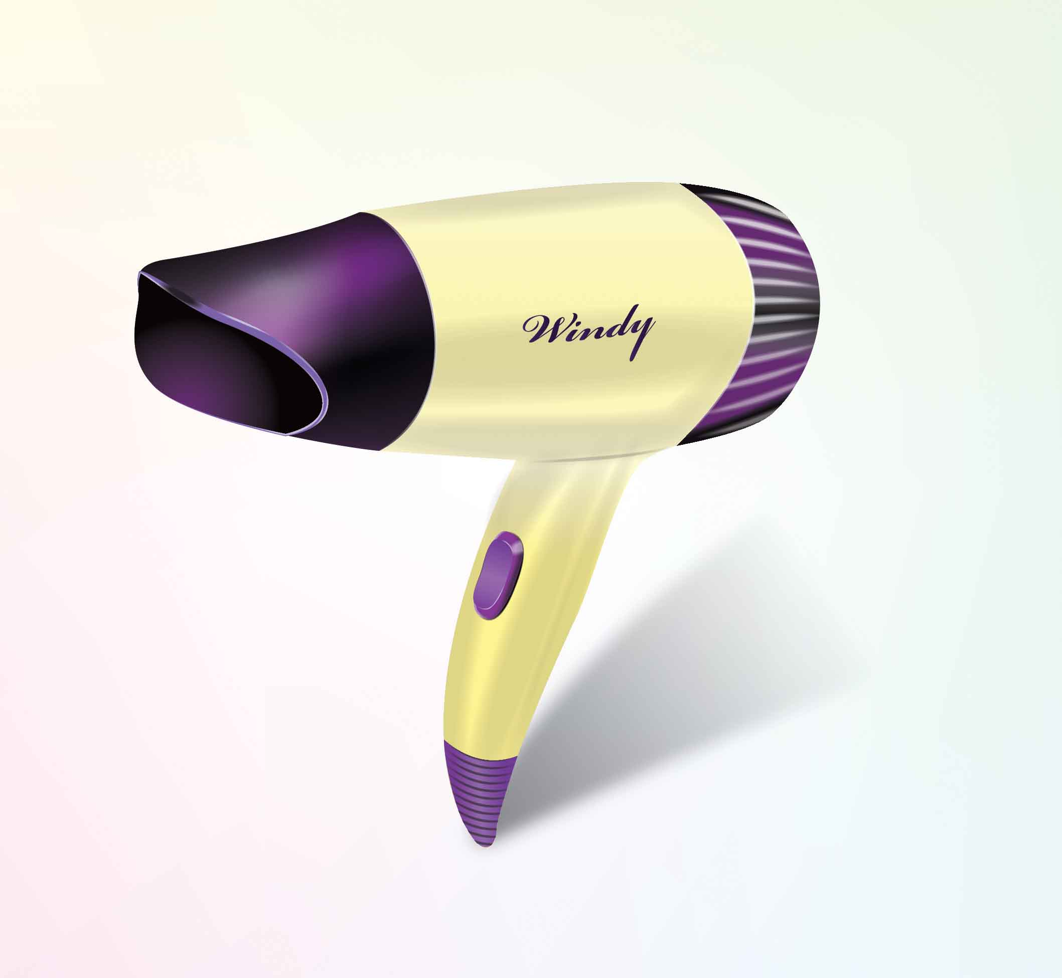 vector image of hair dryer